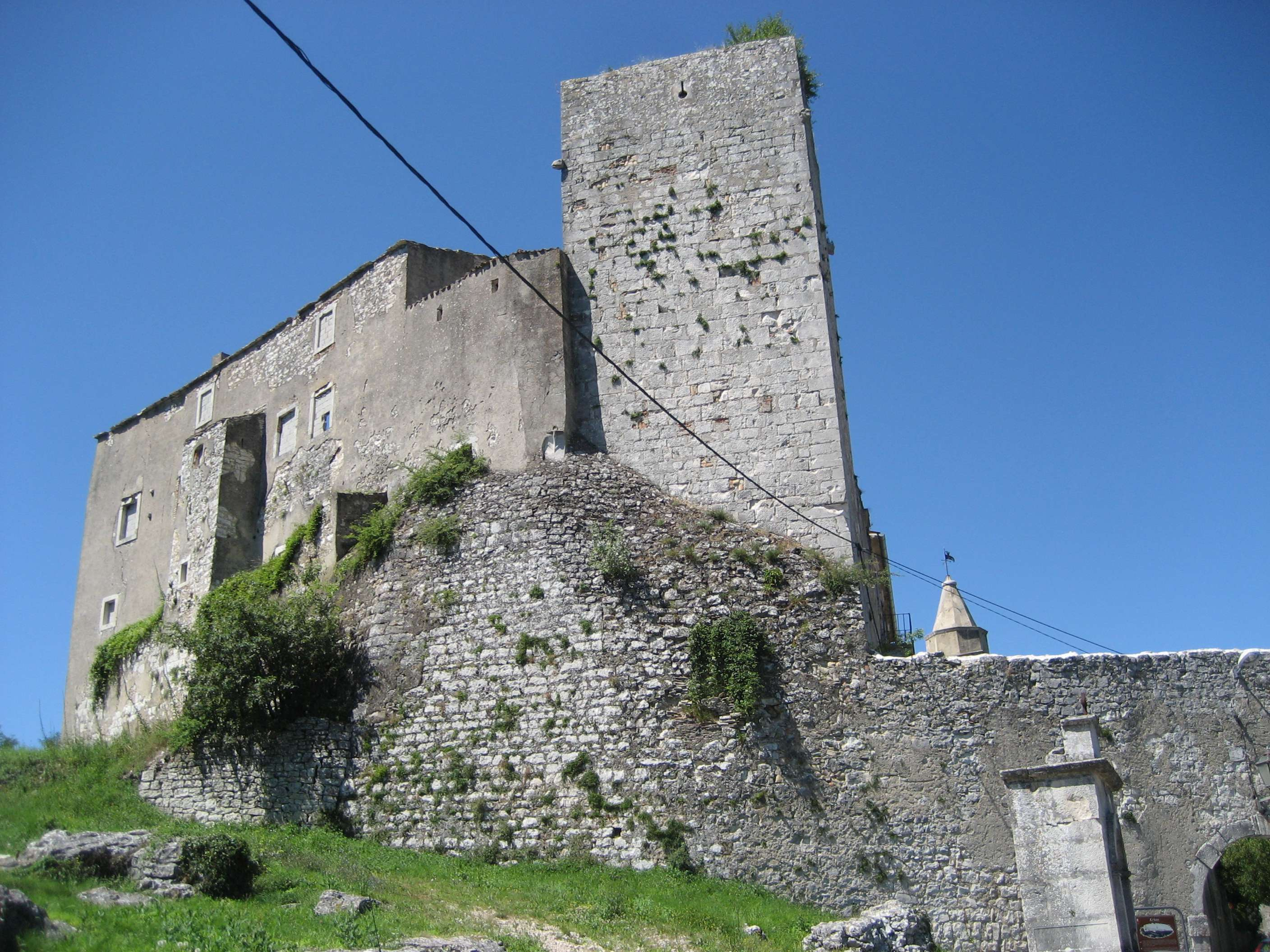 Castle Krsan, Croatia